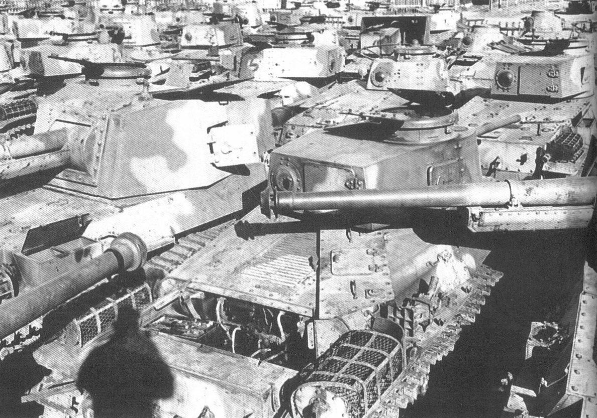 One of the tank depots, created in Japan after the end of WWII, with Type 3 Chi-Nu and Type 97 Shinhoto Chi-Ha on the foreground, Type 1 Chi-He, Type 97 Chi-Ha, Type 3 Ho-Ni III and other unidentified vehicles at background